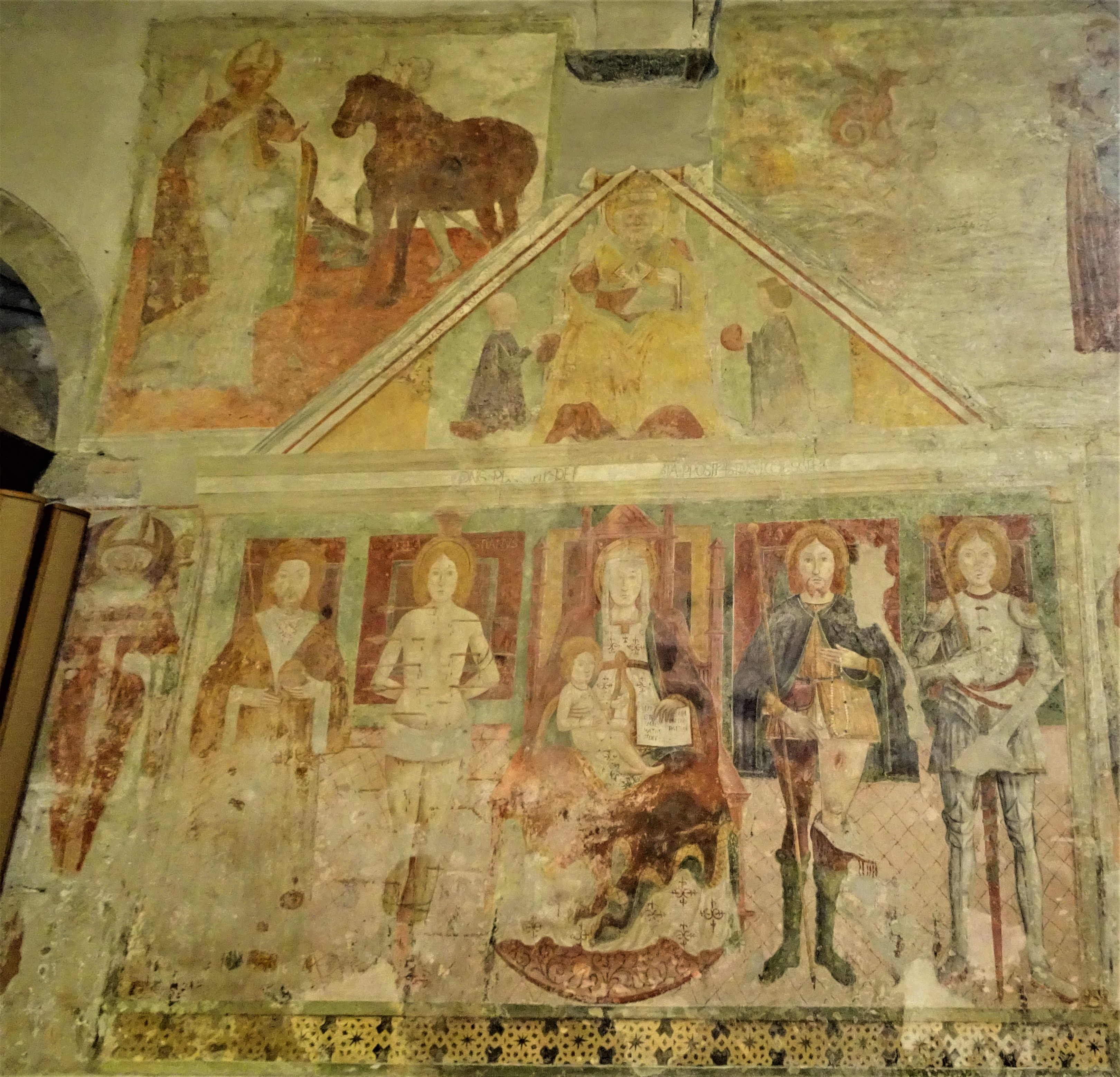 an image of the laterale wall in the St. Peter and Paul church in Brebbia